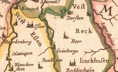 Attention - Unusual orientation: SN (... North points to the right) Historic map's detail of the Stift Eßen (monastery Essen), Westphalia, Germany Detail of the historic map Circulvs Westphalicvs (Westphalian district) or Germaniæ Inferioris (lower Germany) Part of the book from 1645 Theatrum Orbis Terrarum, sive Atlas Novus in quo Tabulæ et Descriptiones Omnium Regionum, Editæ a Guiljel et Ioanne Blaeu (Theater of the World, or a New Atlas of Maps and Representations of All Regions, Edited by Willem and Joan Blaeu)